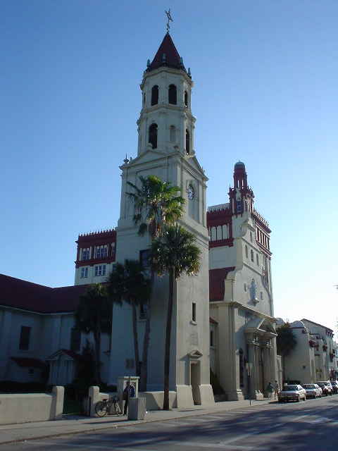 Cathedral-Basilica in St. Augustine, Florida.